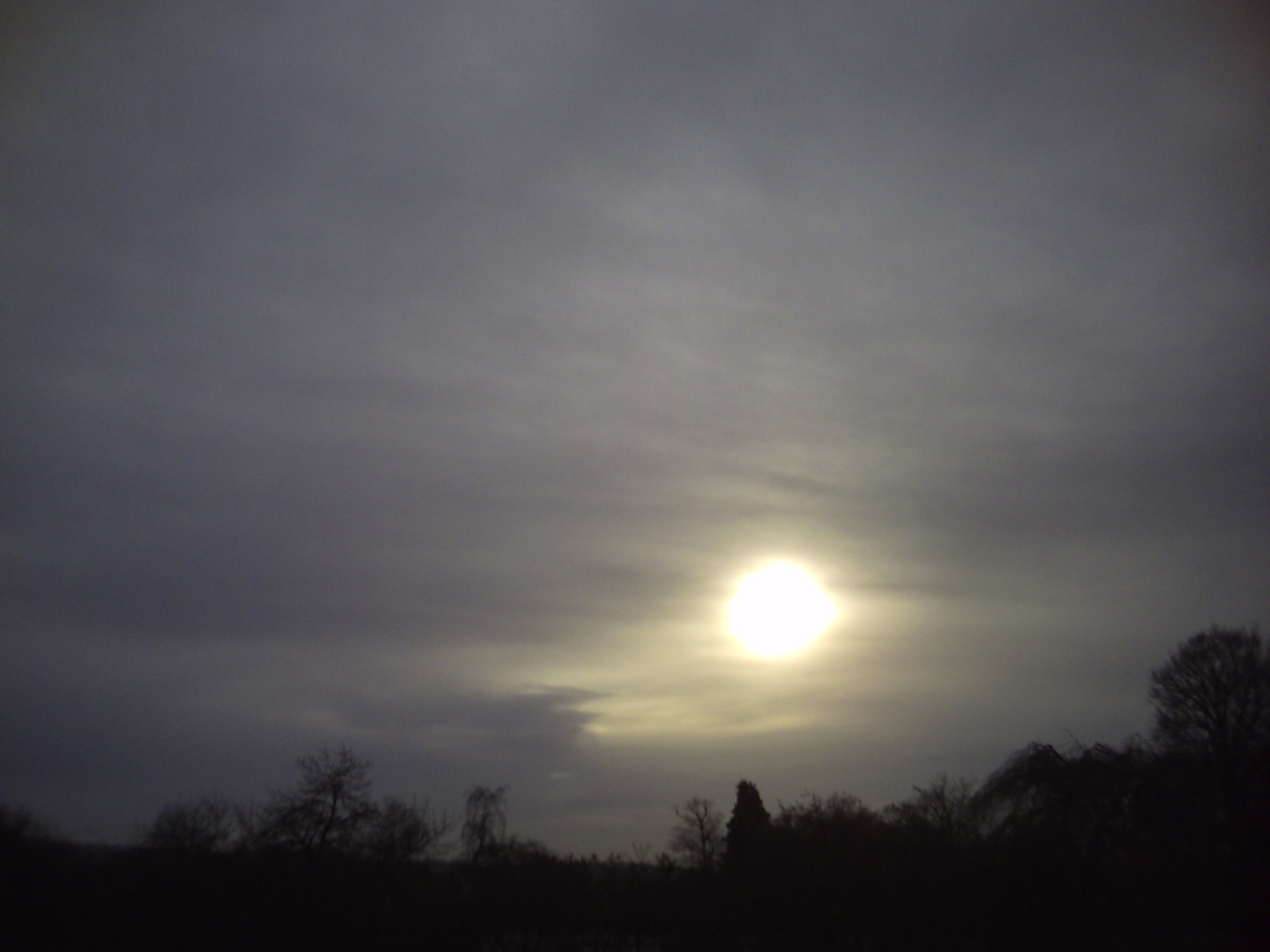 A typical layer of altostratus translucidus.